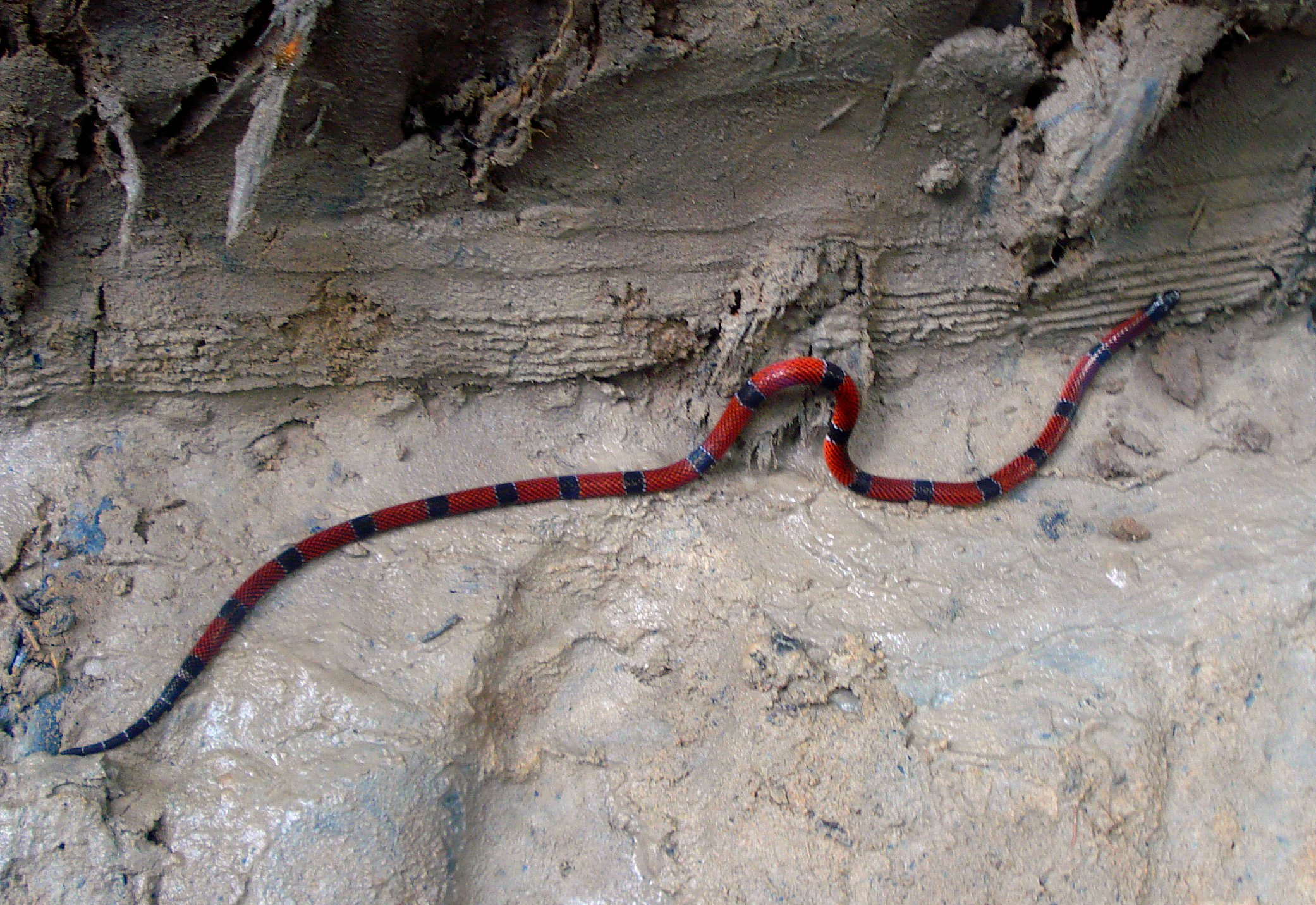 Para Coral Snake (Micrurus parensis)